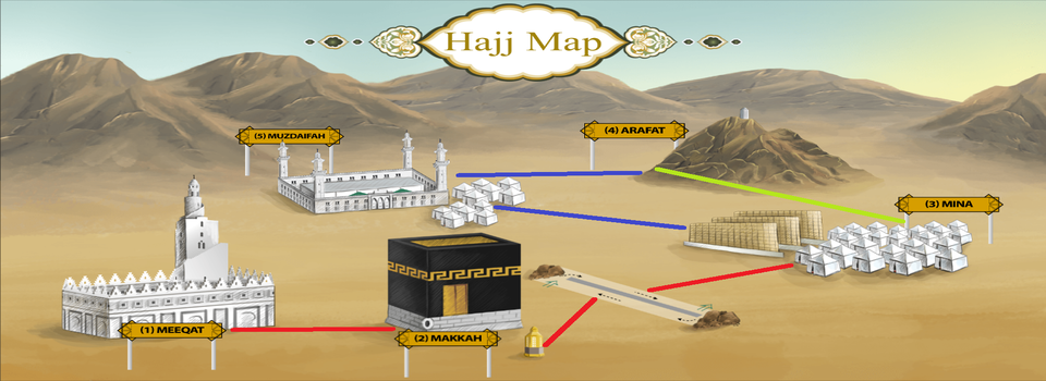 Hajj Map